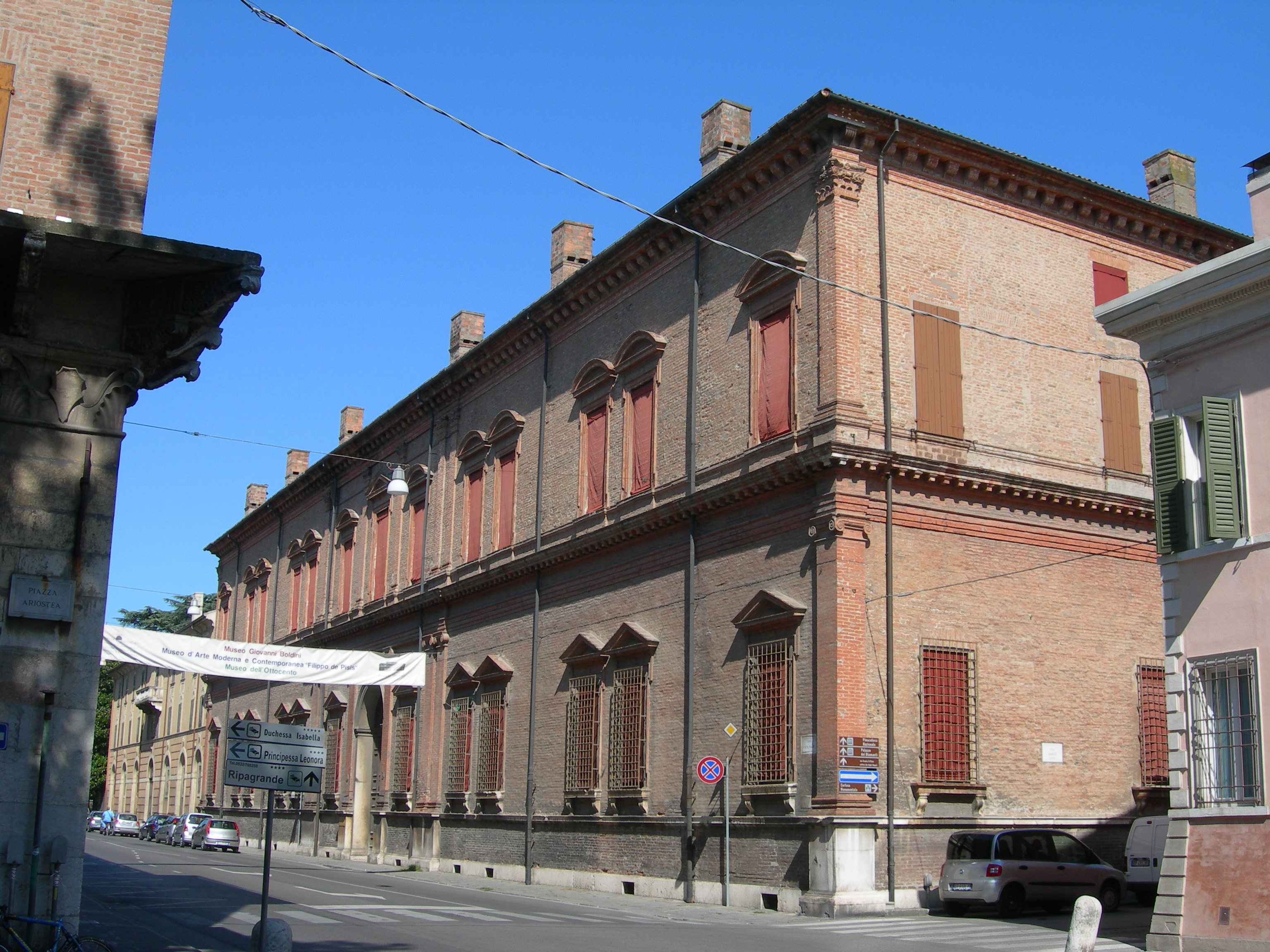 Massari Palace